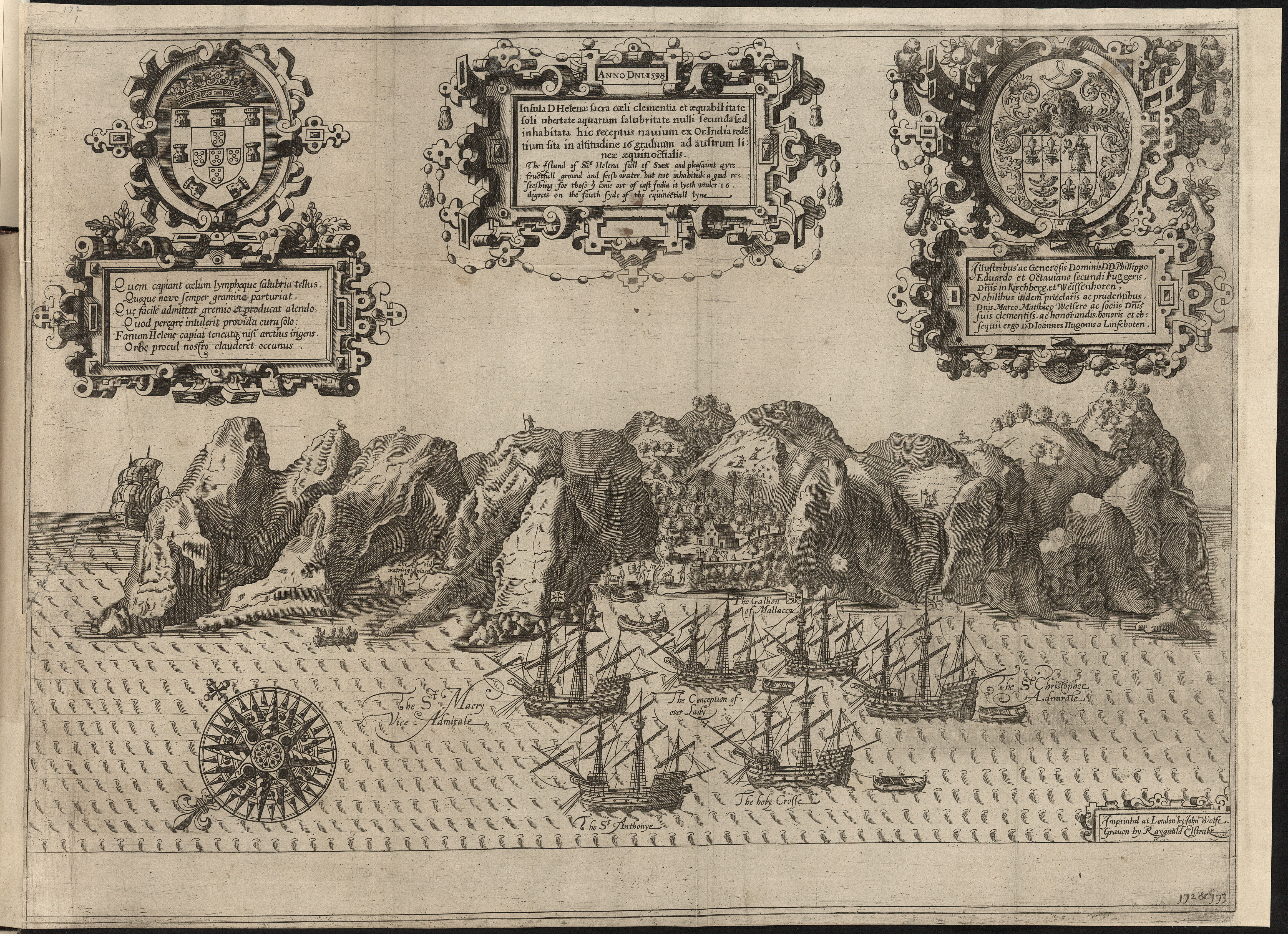 Title:Iohn Huighen van Linschoten his Discours of voyages into ye Easte & West Indies : deuided into foure bookes. in 159- Other Title: Discours of voyages into ye Easte & West Indies